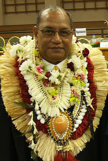 Marshallese president, Christopher Loeak at his inaguaration